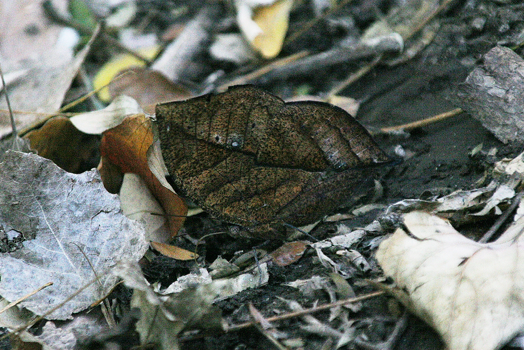 Kallima inachus - Orange Oak Leaf (bottom), Monsanto Insectarium, St. Louis Zoo